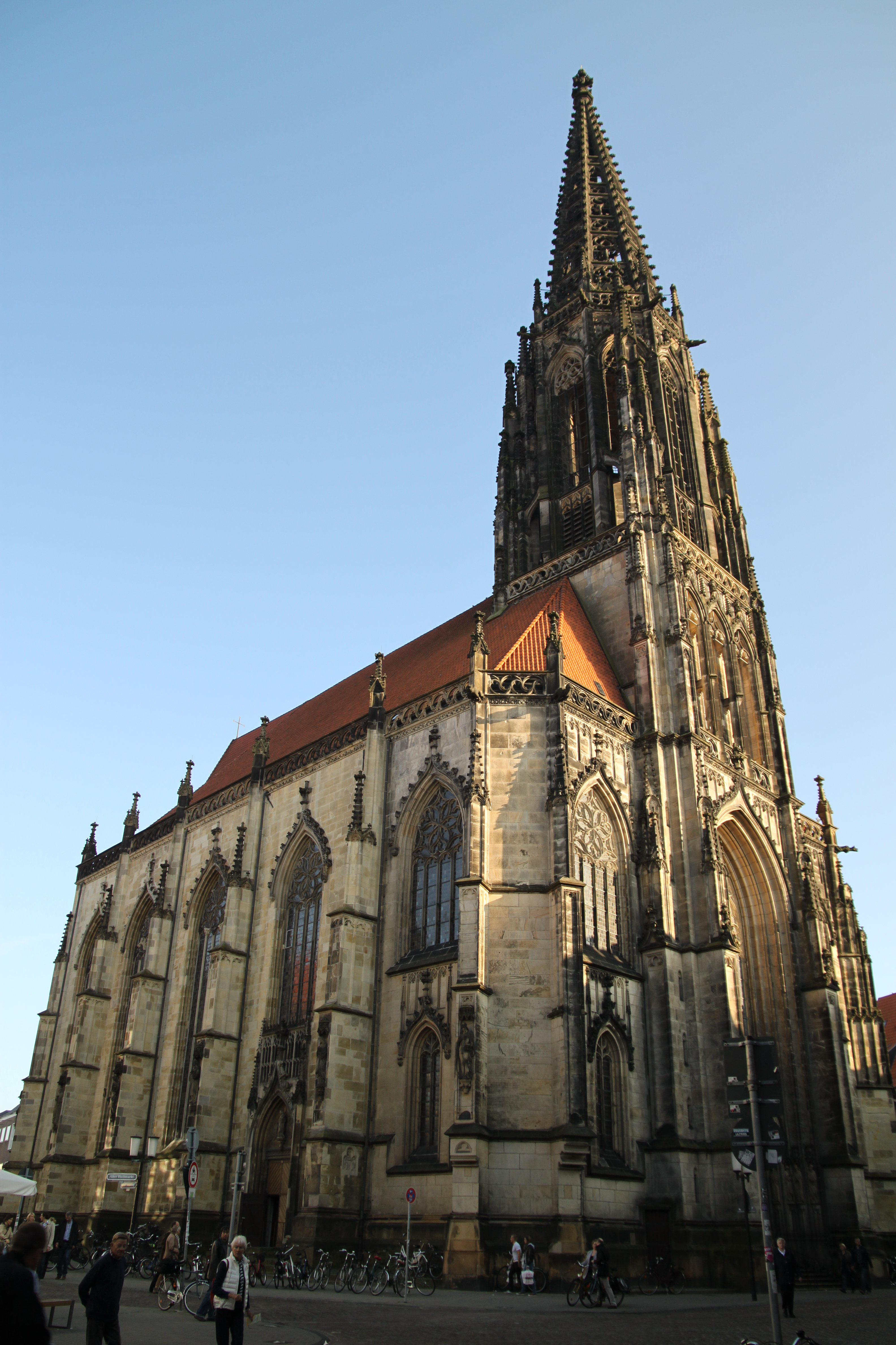 Iglesia de St. Lamberti